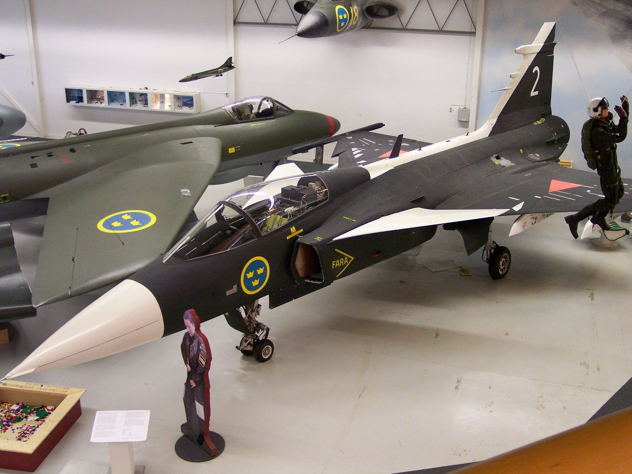 Hawker Hunter or J 34 and Saab 39 Gripen on display at the Swedish Air Force Museum, Linköping. 2nd prototype of Saab 39 Gripen. It is still in it's company demonstrator colour scheme.